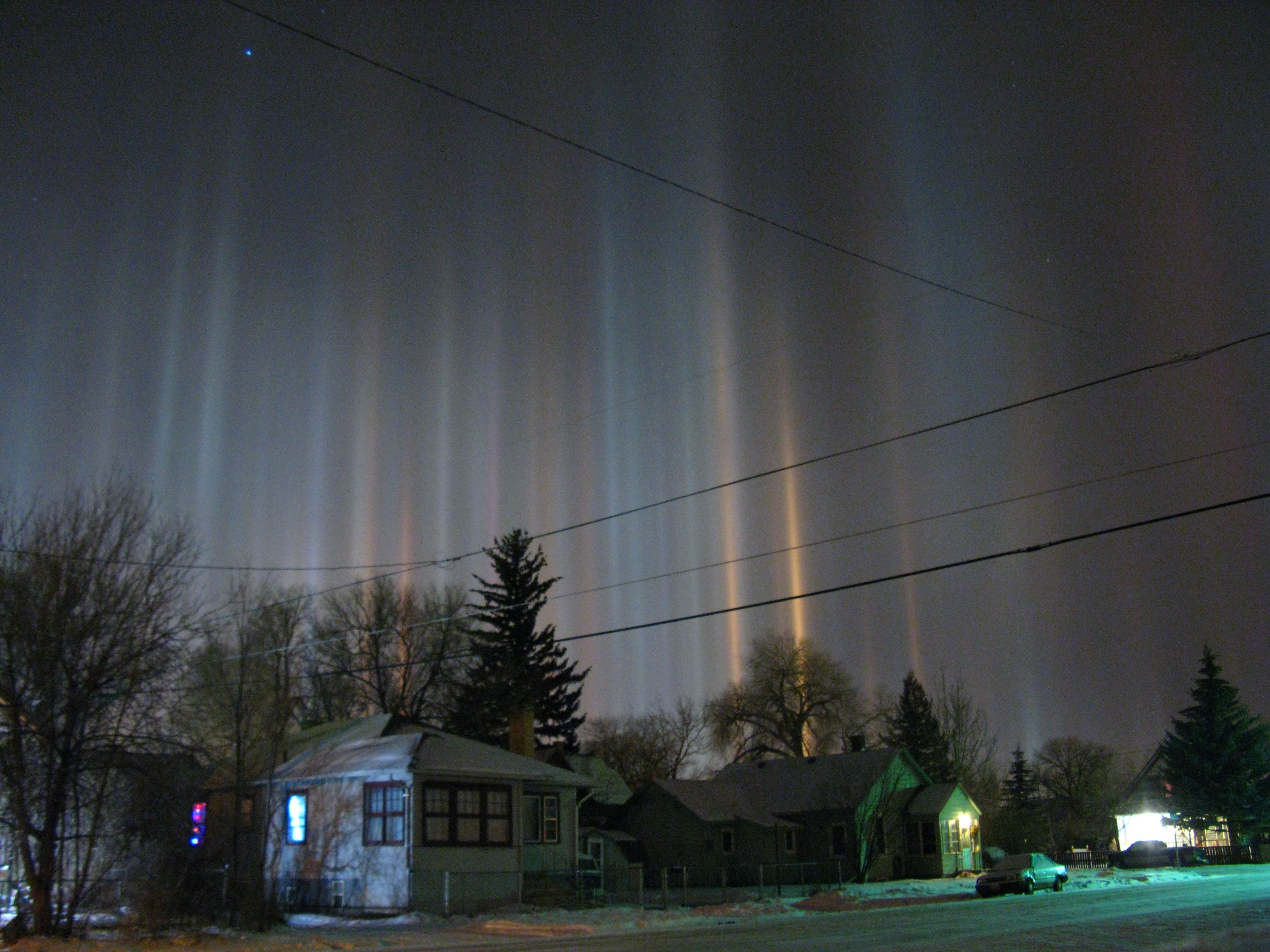 Light pillars over the Laramie, Wyoming, USA night sky on a very cold January night